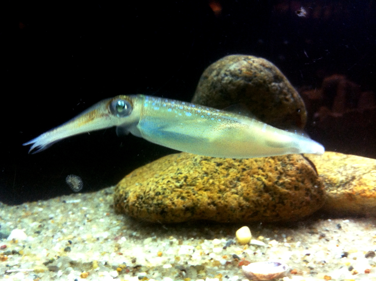 A long-finned squid as seen at the Maria Mitchell Aquarium